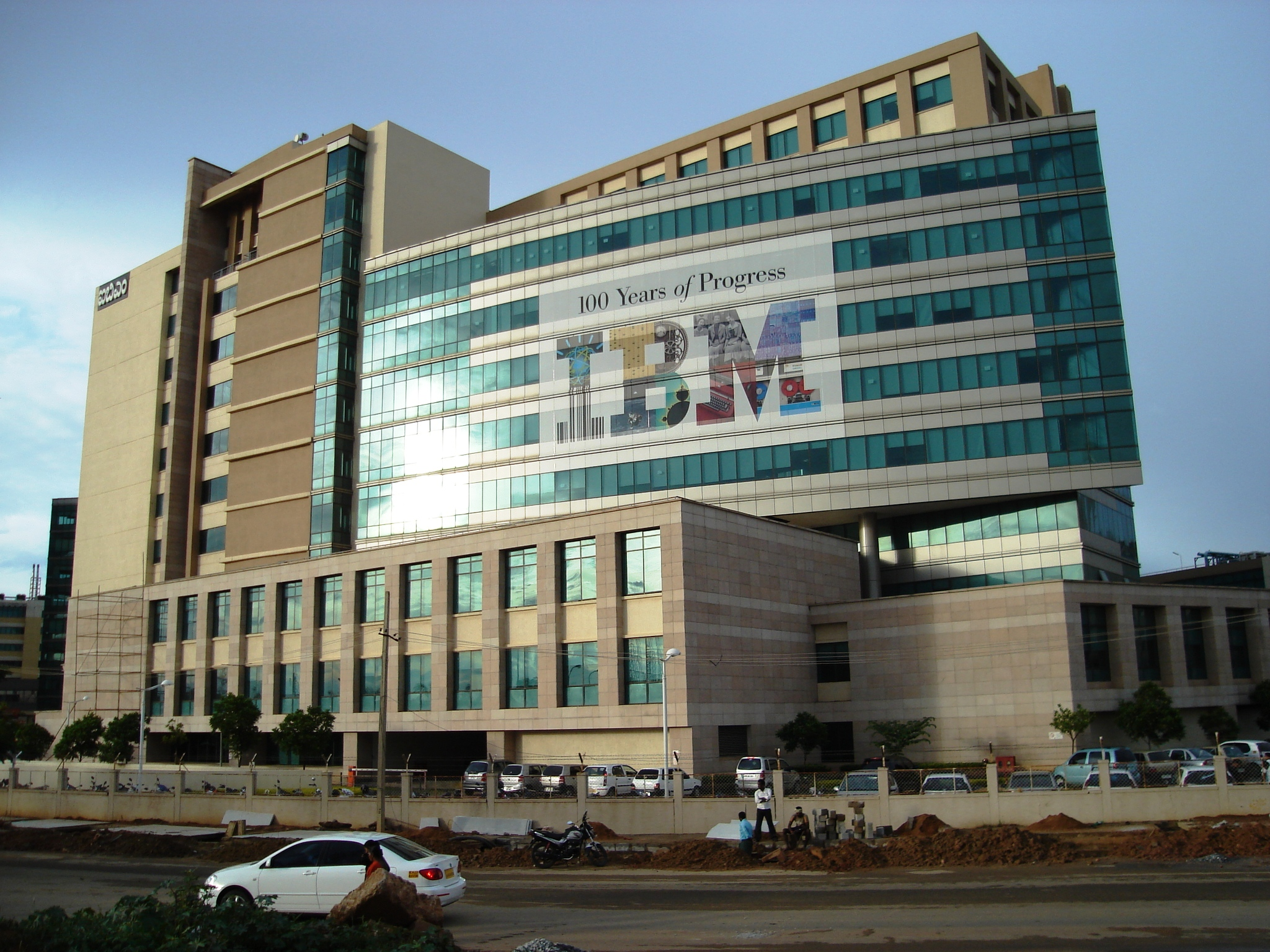 I hereby release this picture to public domain, as it is my own work.